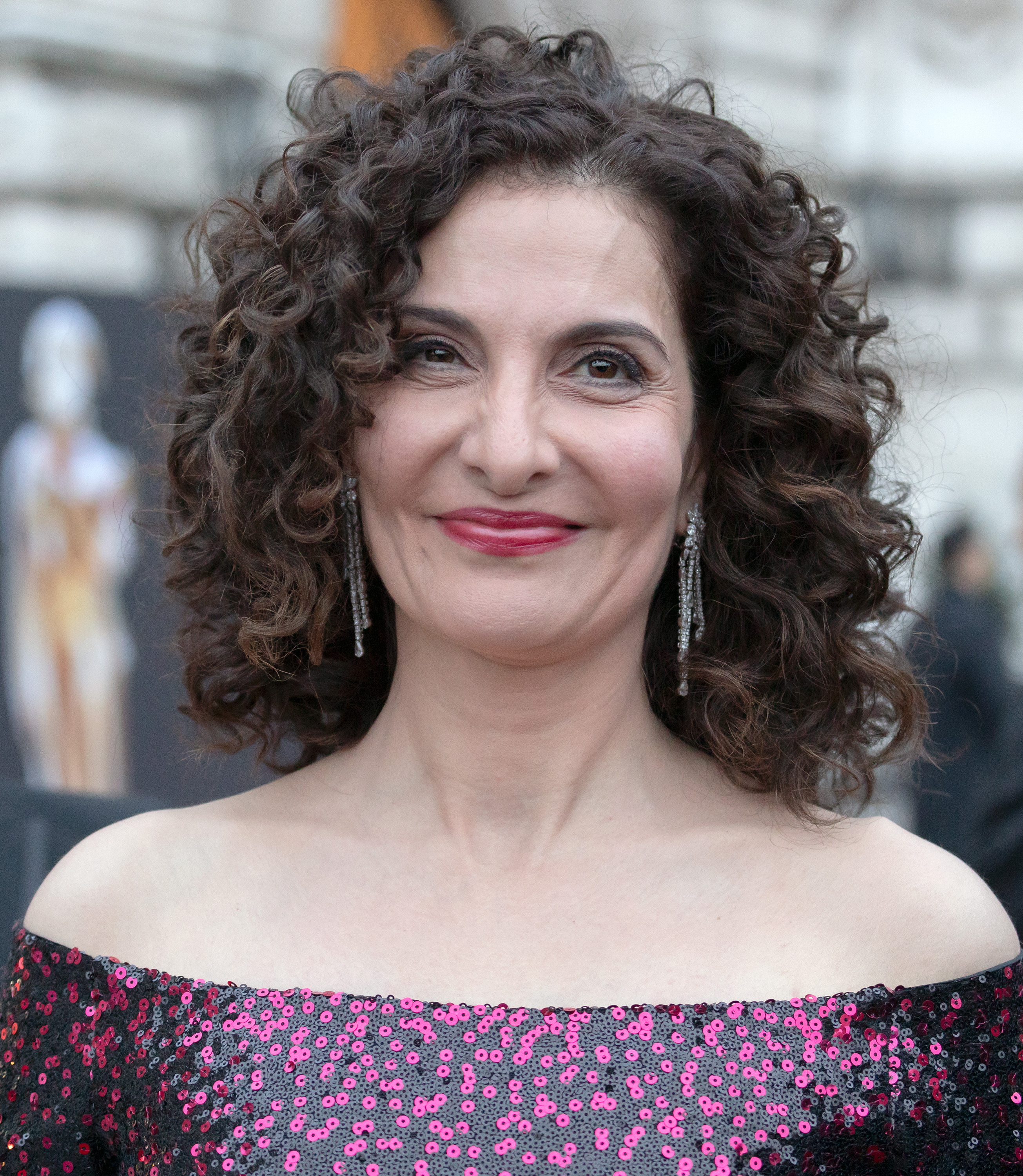 Proschat Madani on the red carpet of the Romy TV awards 2019 at Hofburg Palace in Vienna, Austria.